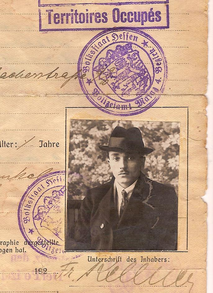 1923 identification pass of Friedrich Kellner